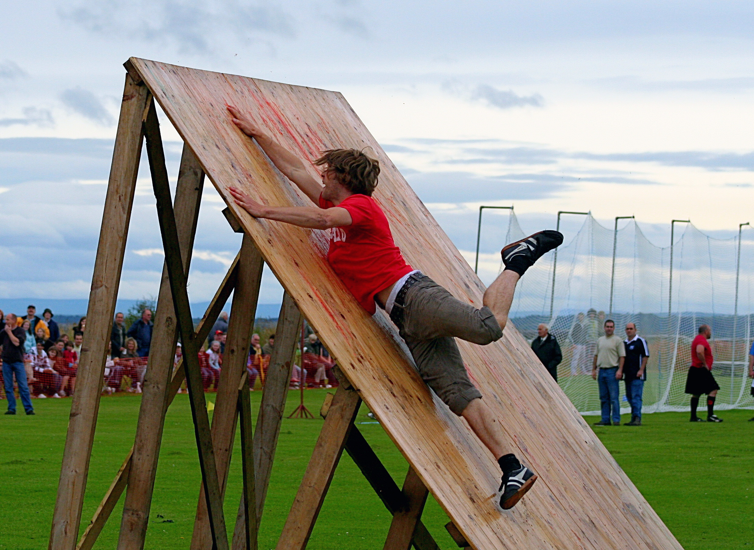 One of the last events of the day is the Obstacle Race, the highlight of which is the slippery slope. Competitors have to get over the top, but the wooden slope has been liberally doused with water and washing-up liquid, making it incredibly slippery. Great fun to watch!